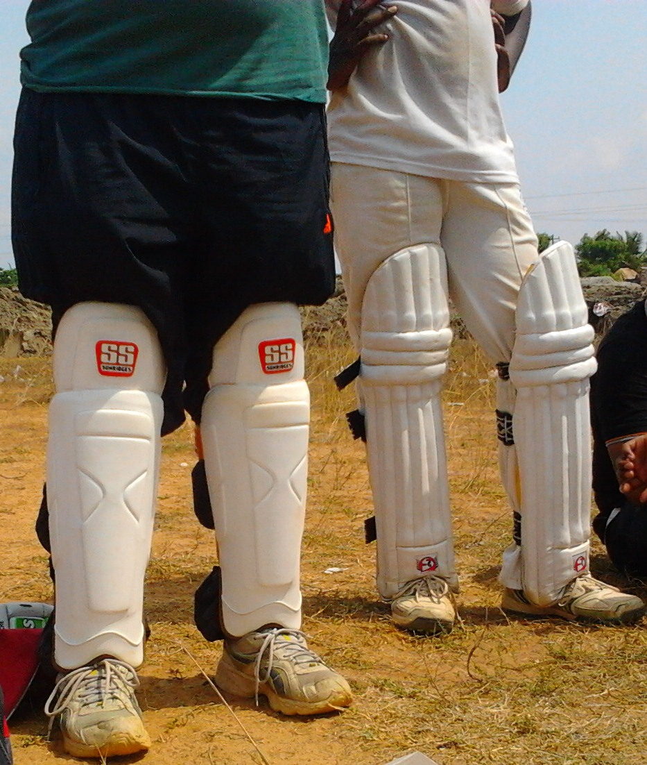 Photoed using Samsung Wave 525.